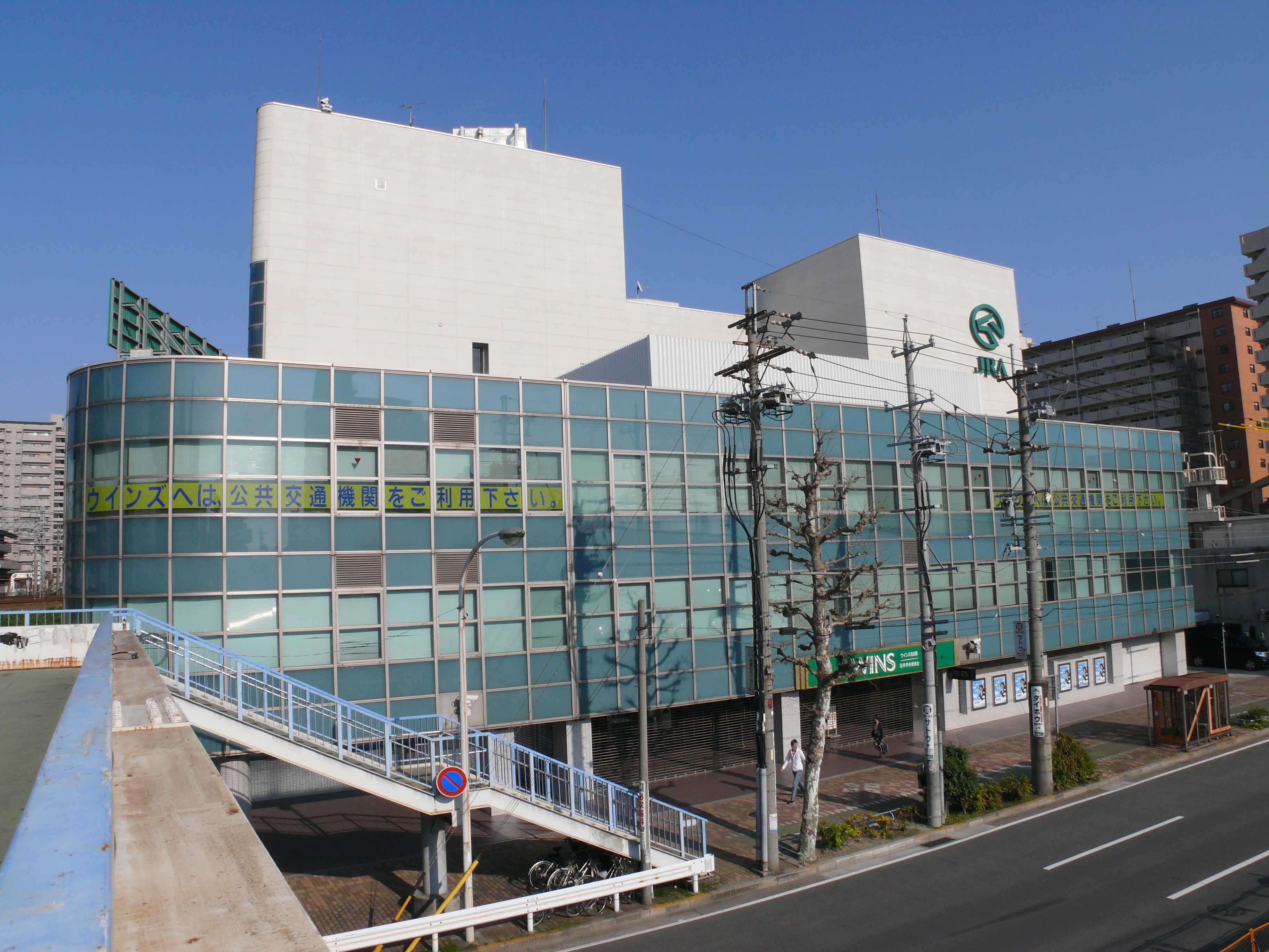 JRA WINS Nagoya.